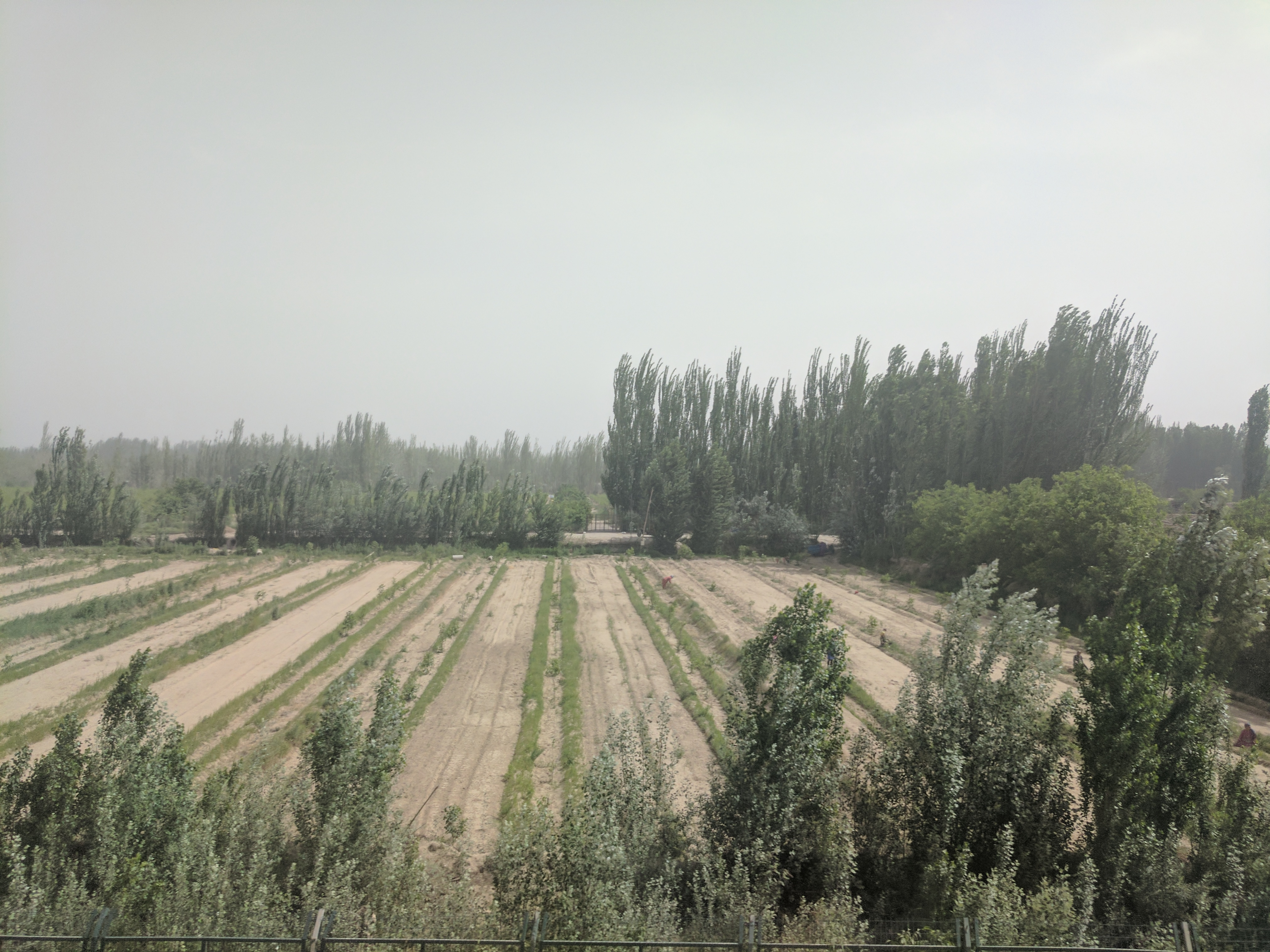 Hotan farmland from the train